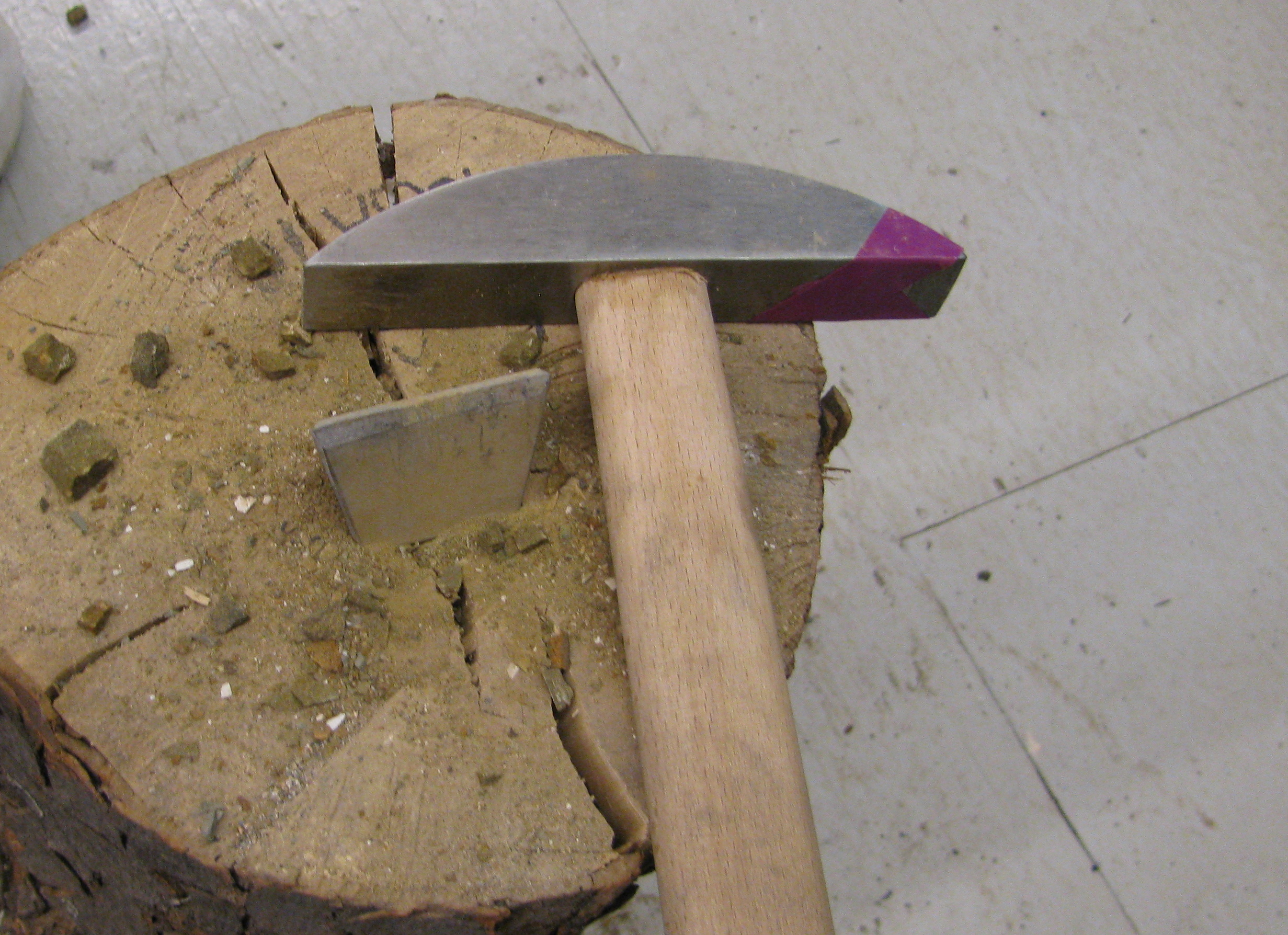 These are the hammer and hardie,mosaic tools used for cutting stone by Italian mosaic artists